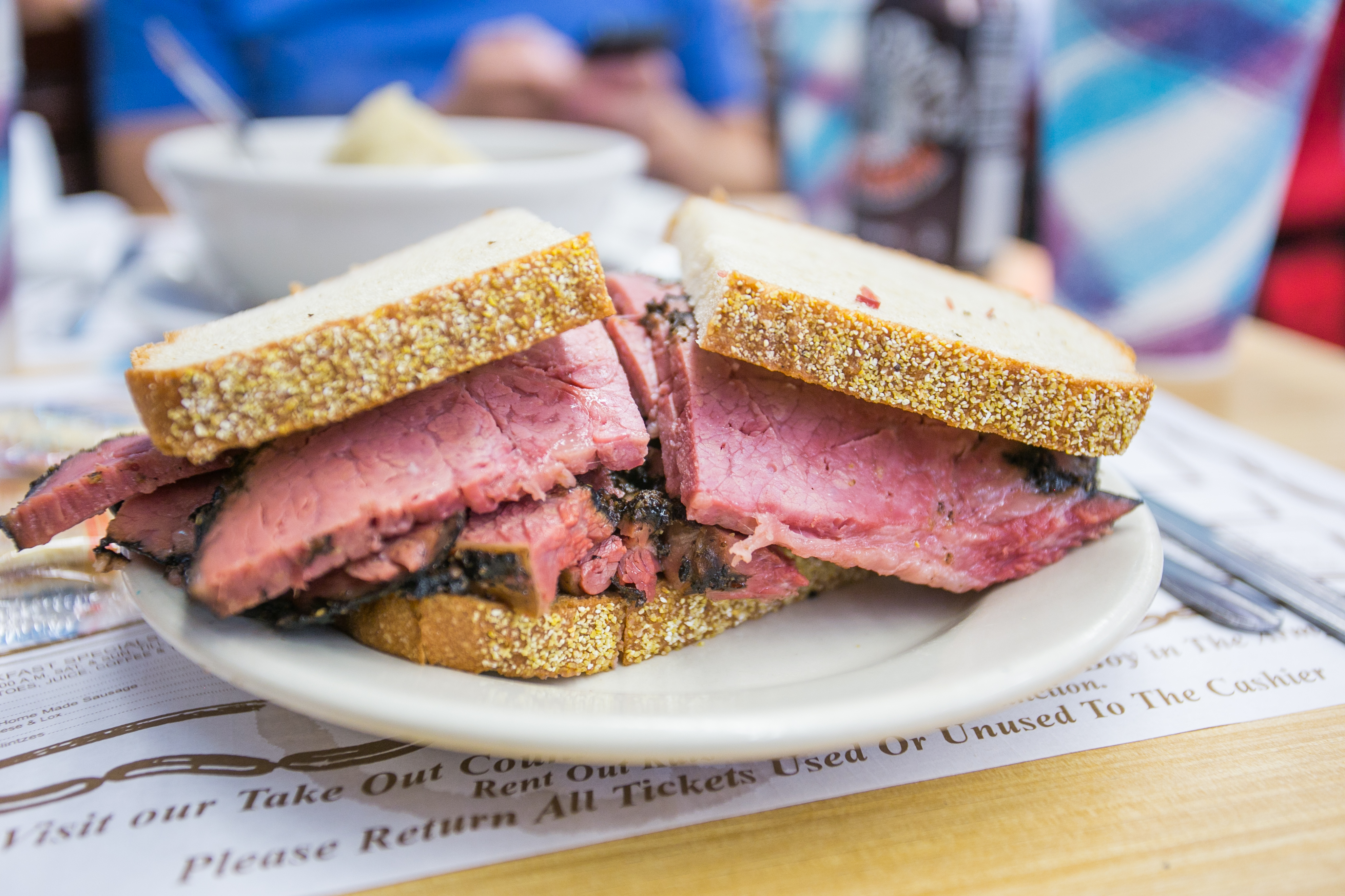 Katz's Deli, New York City Date Visited: June 15, 2013